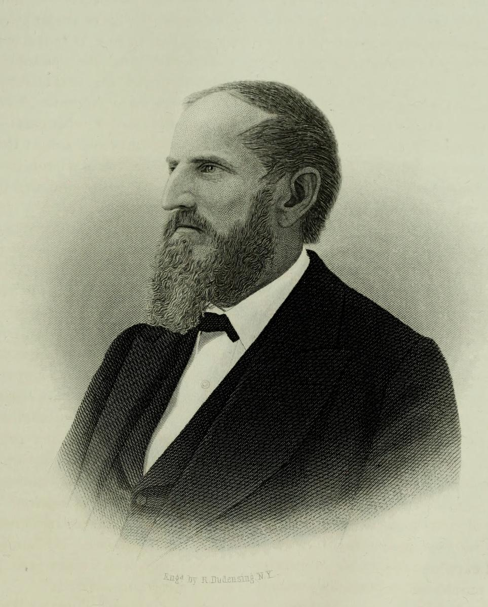 Daniel Read Anthony, American newspaper publisher and abolitionist.